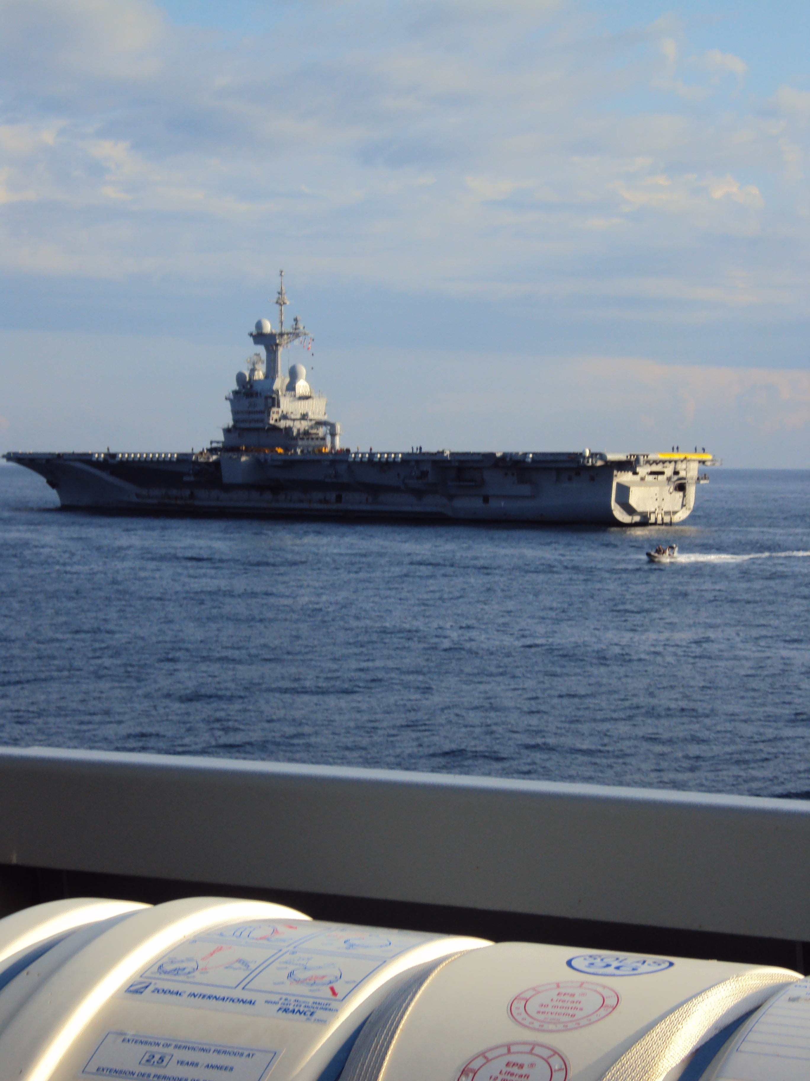 Charles de Gaulle air carrier from the Forbin fregate arriving in toulon